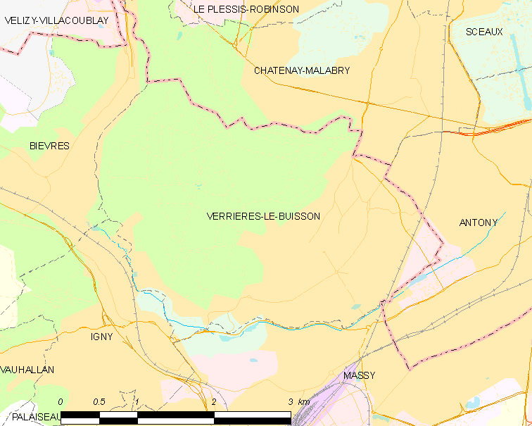 Map of French municipality Verrières-le-Buisson